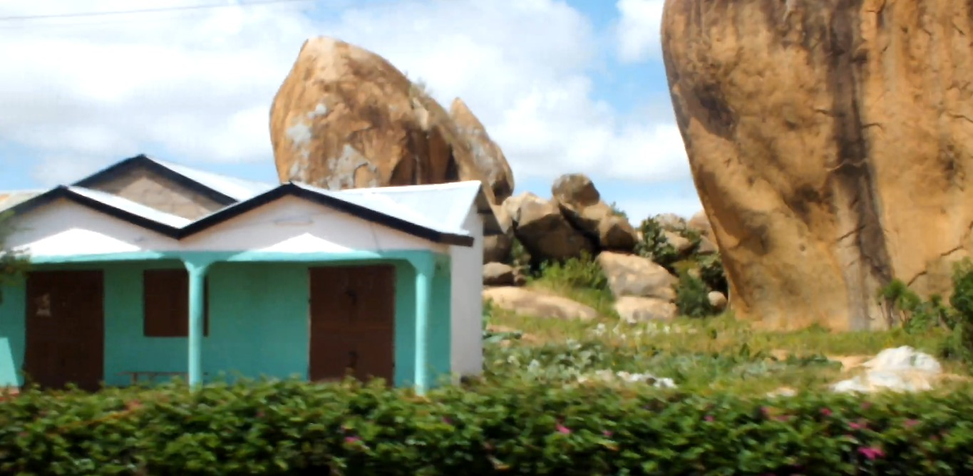 Dwellings amid the rock-field in Singida. (A frame from the video I took in the area.)Kiswahili: Singida.